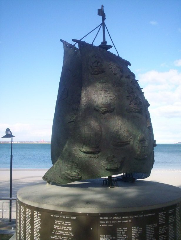 The Bicentennial Monument in Brighton-Le-Sands, New South Wales at Botany Bay commemorating the landing of the First Fleet led by Arthur Phillip in 1788.